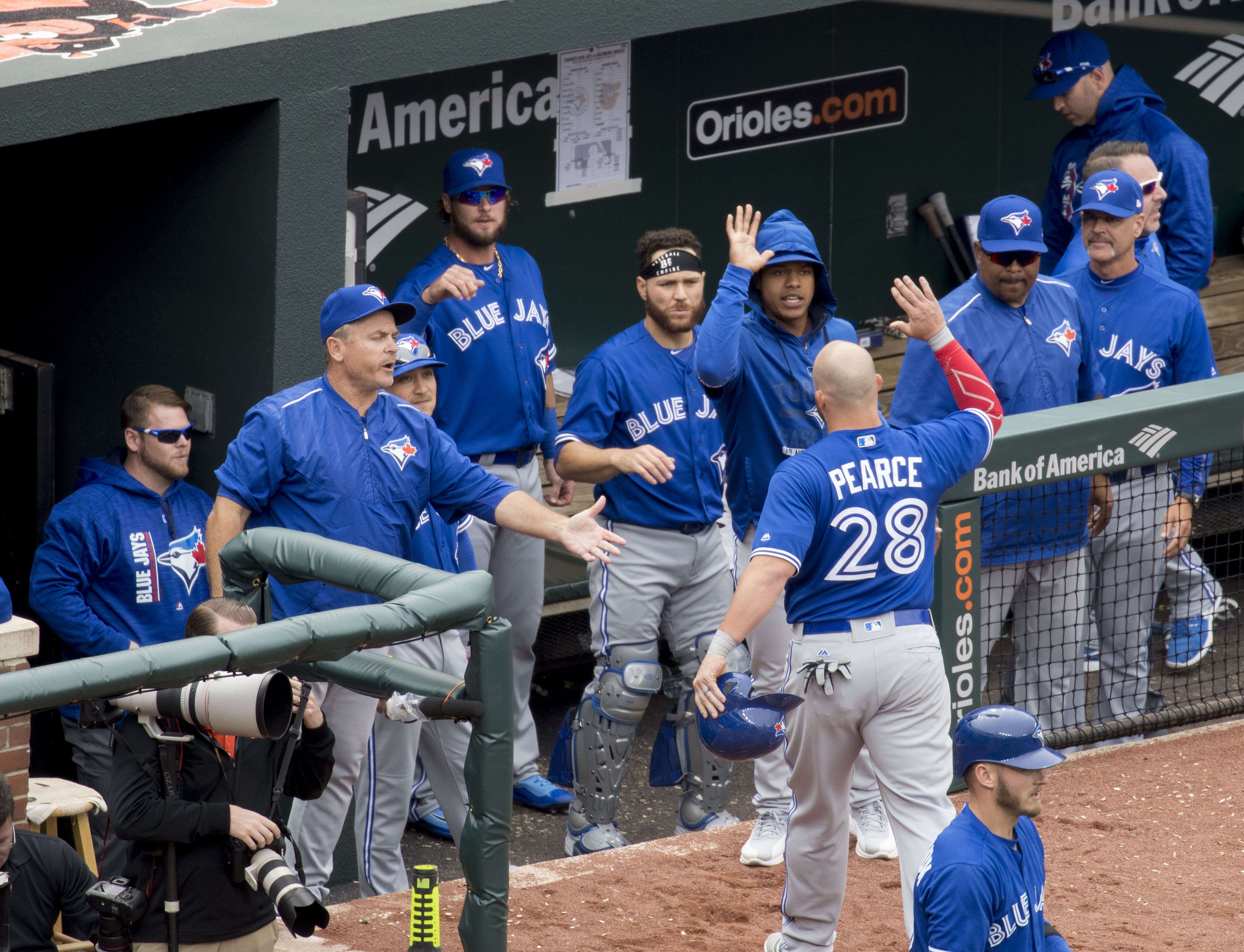 Blue Jays at Orioles on Opening Day 2017